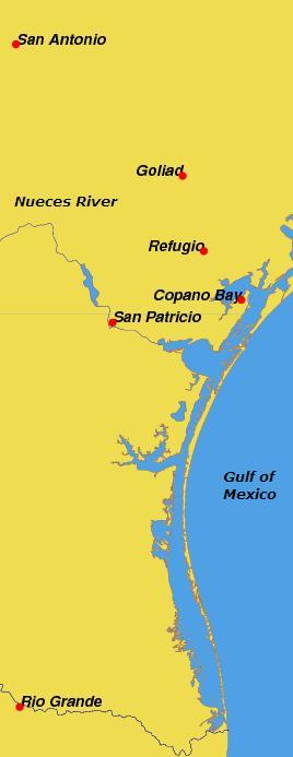 This is a map showing some cities in Texas